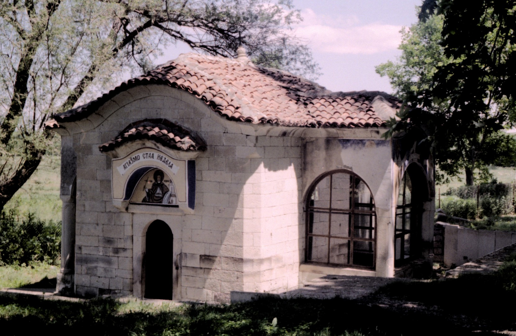 Arapovski monastery - Bulgaria